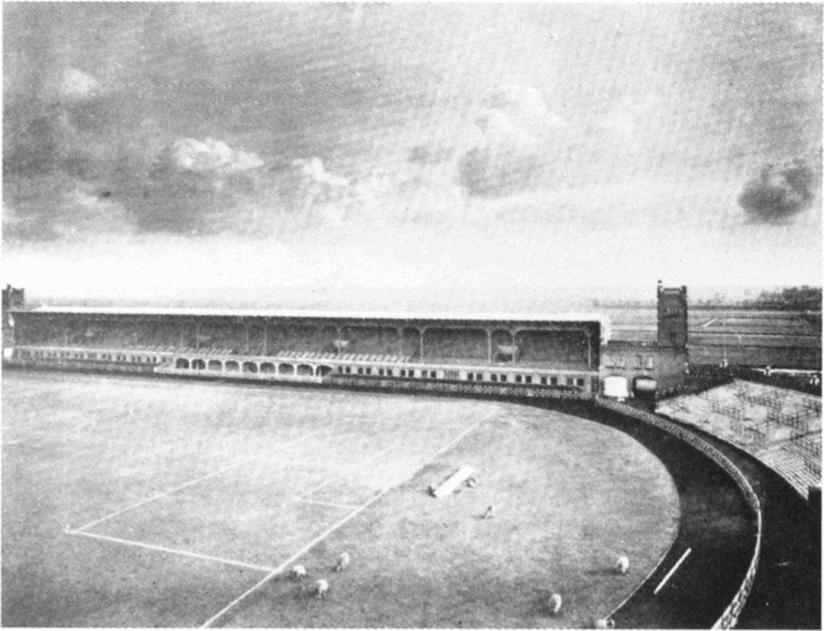 Harry Elte (architect). Stadium, Amsterdam. From Harry Elte Phzn en Gerard F. Mastenbroek (1917) Architecten Amsterdam, Amsterdam: s.n.